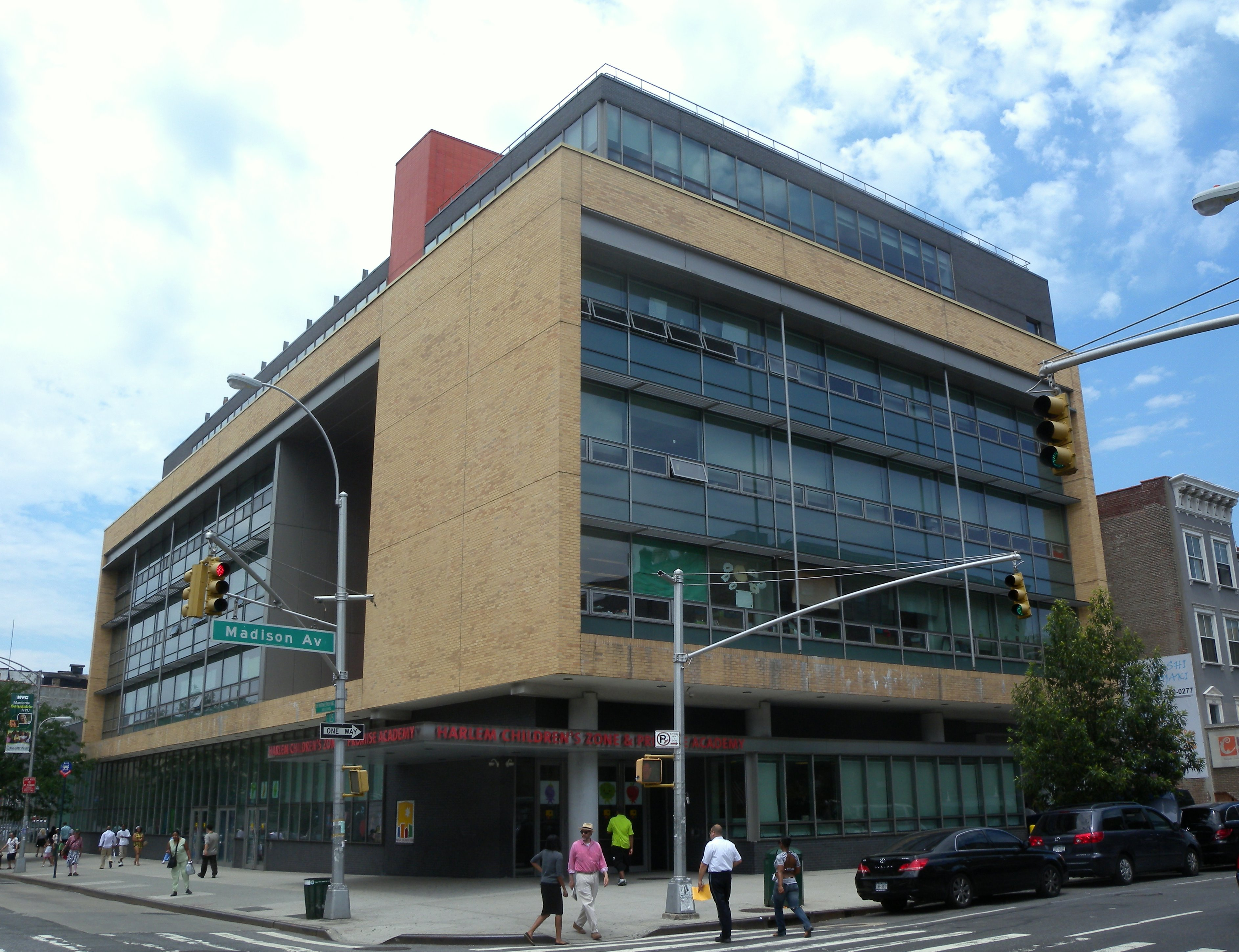 Looking northwest across Madison and 125 at Harlem Children's Zone and Promise Academy on a mostly cloudy midday.